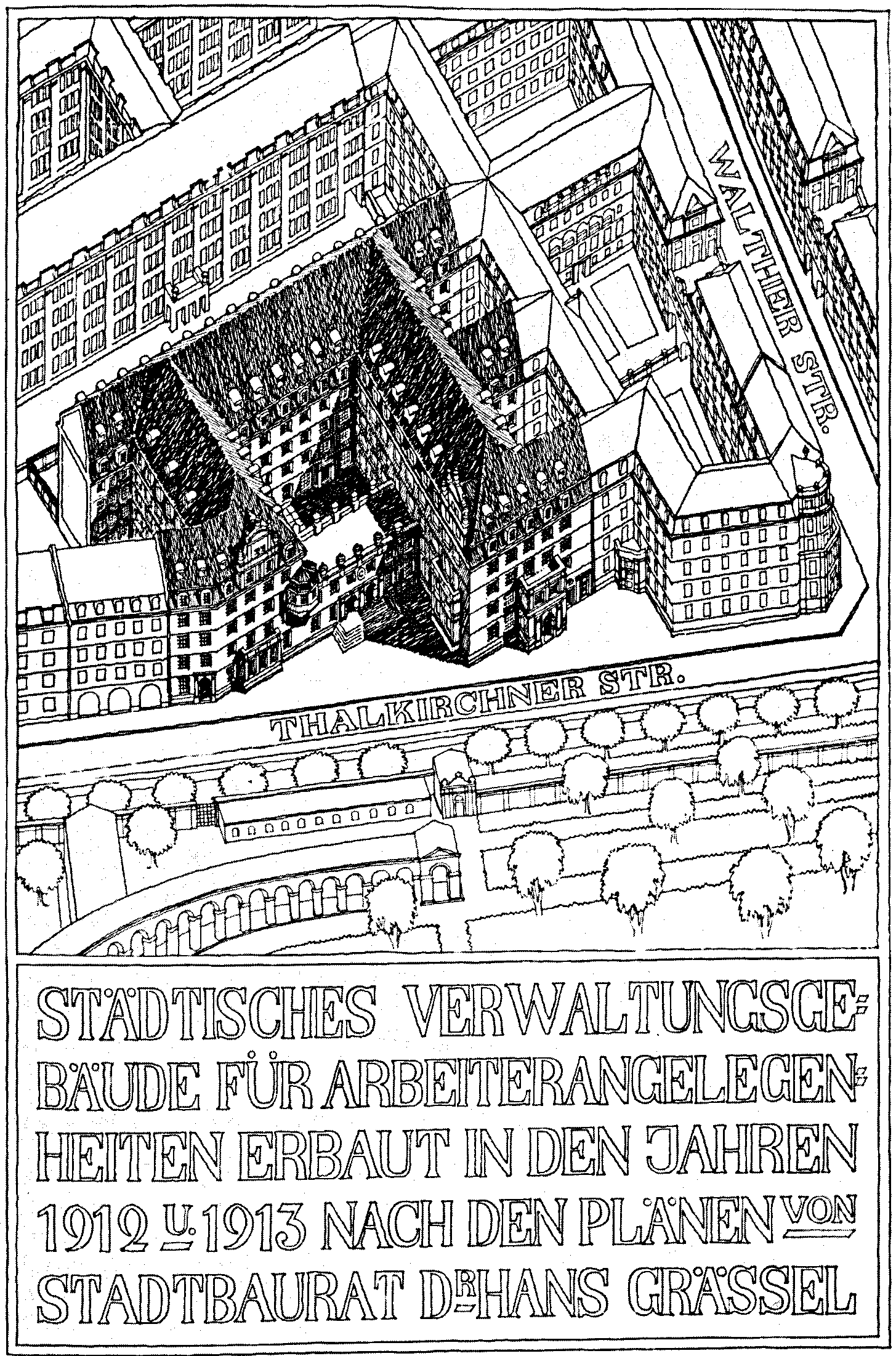 Isometric drawing of Thalkirchner Straße 56, Munich, Germany.